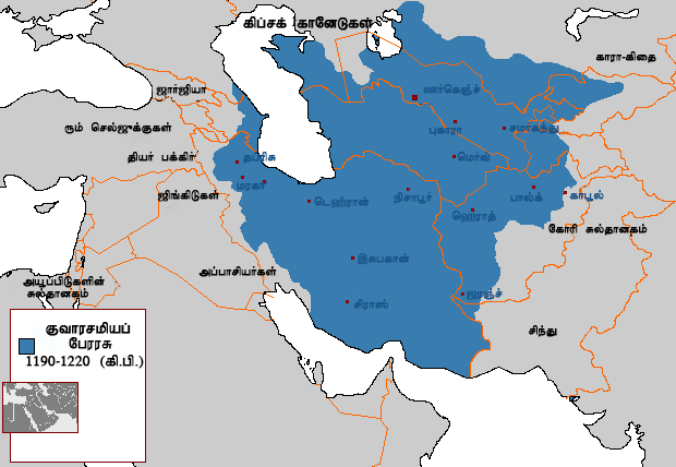 குவாரசமியா